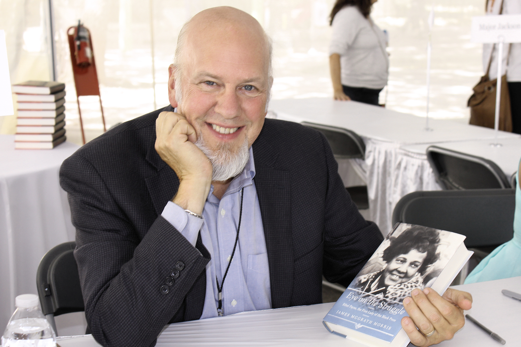 Author James McGrath Morris at the 2015 Texas Book Festival.